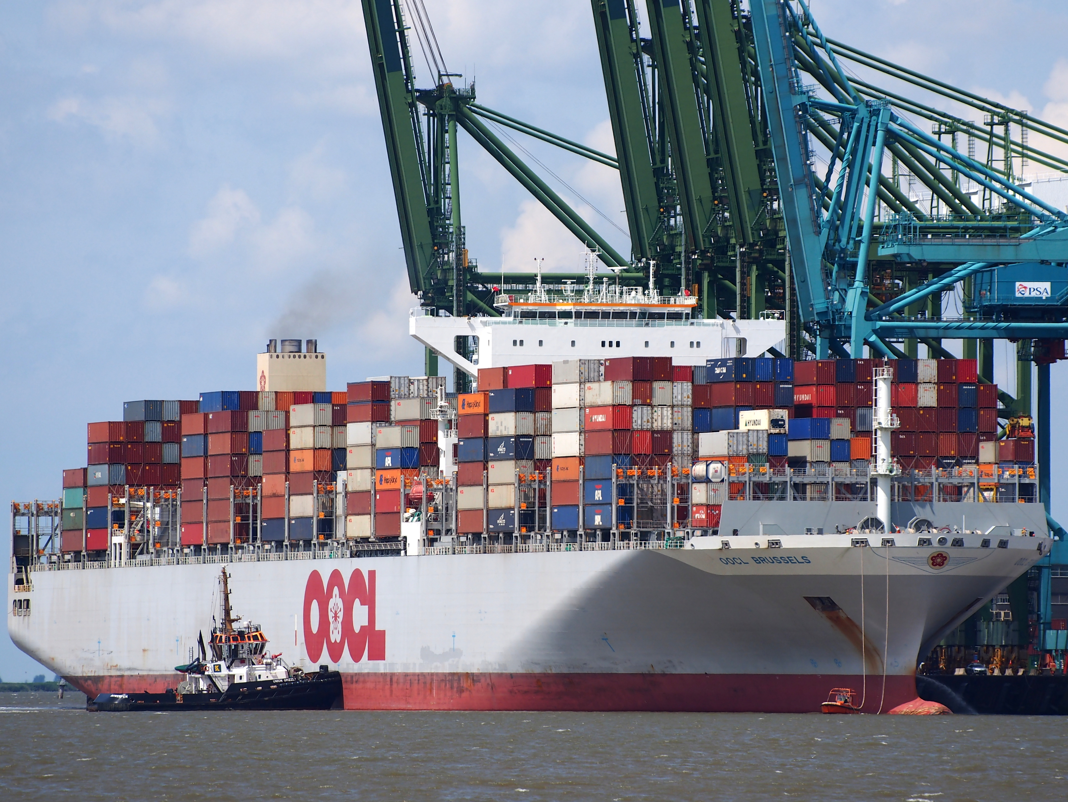 Photographed in the Port of Antwerp.